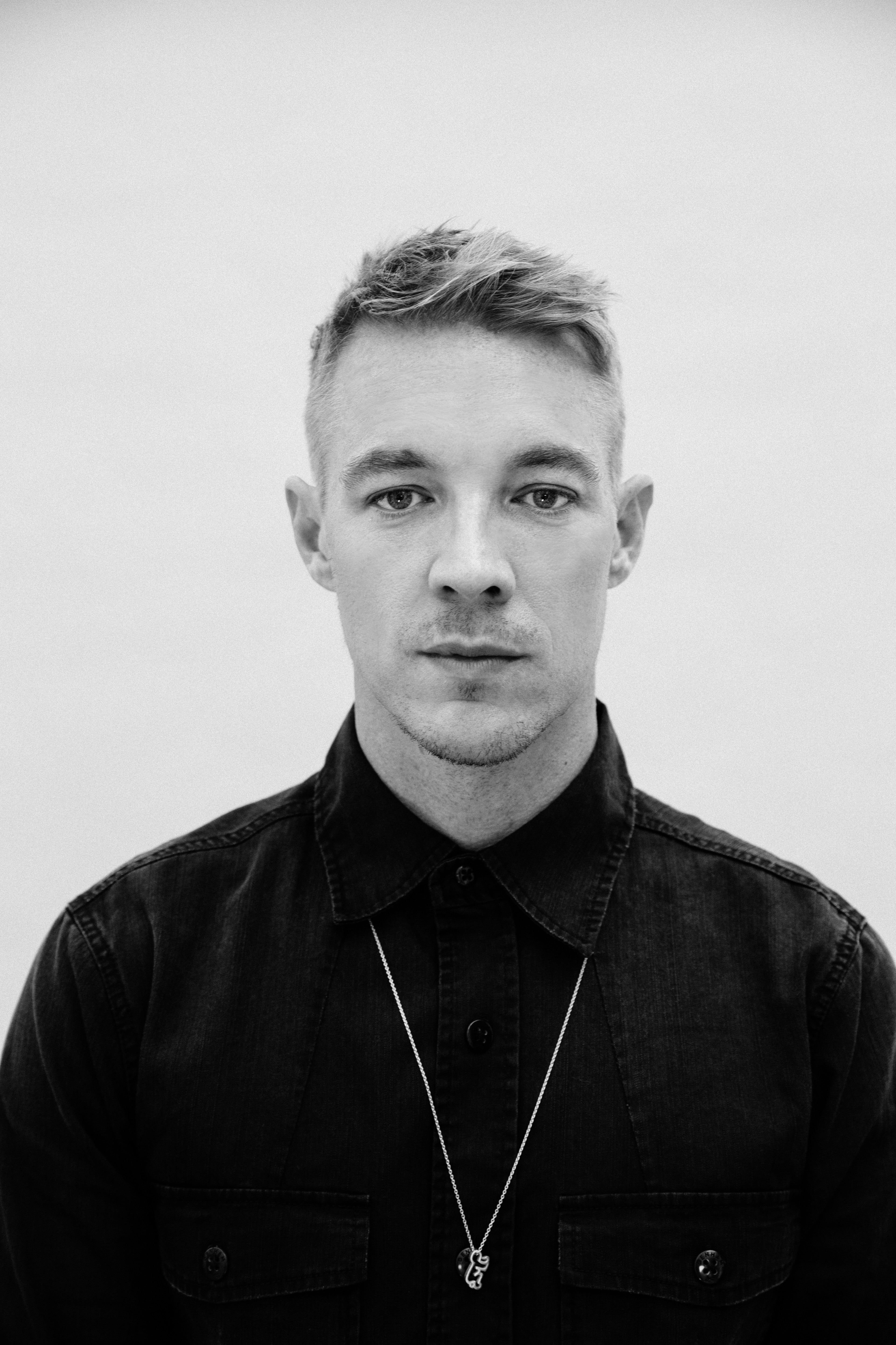 Official press photo for Diplo (Thomas Wesley Pentz), taken 2014